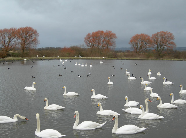 The Whooper Pond. The pond is beside the Peter Scott Observatory. The photo shows the resident wild Mute Swans, with the orange bills. The Whooper Swans, with the yellow bills, are winter visitors.